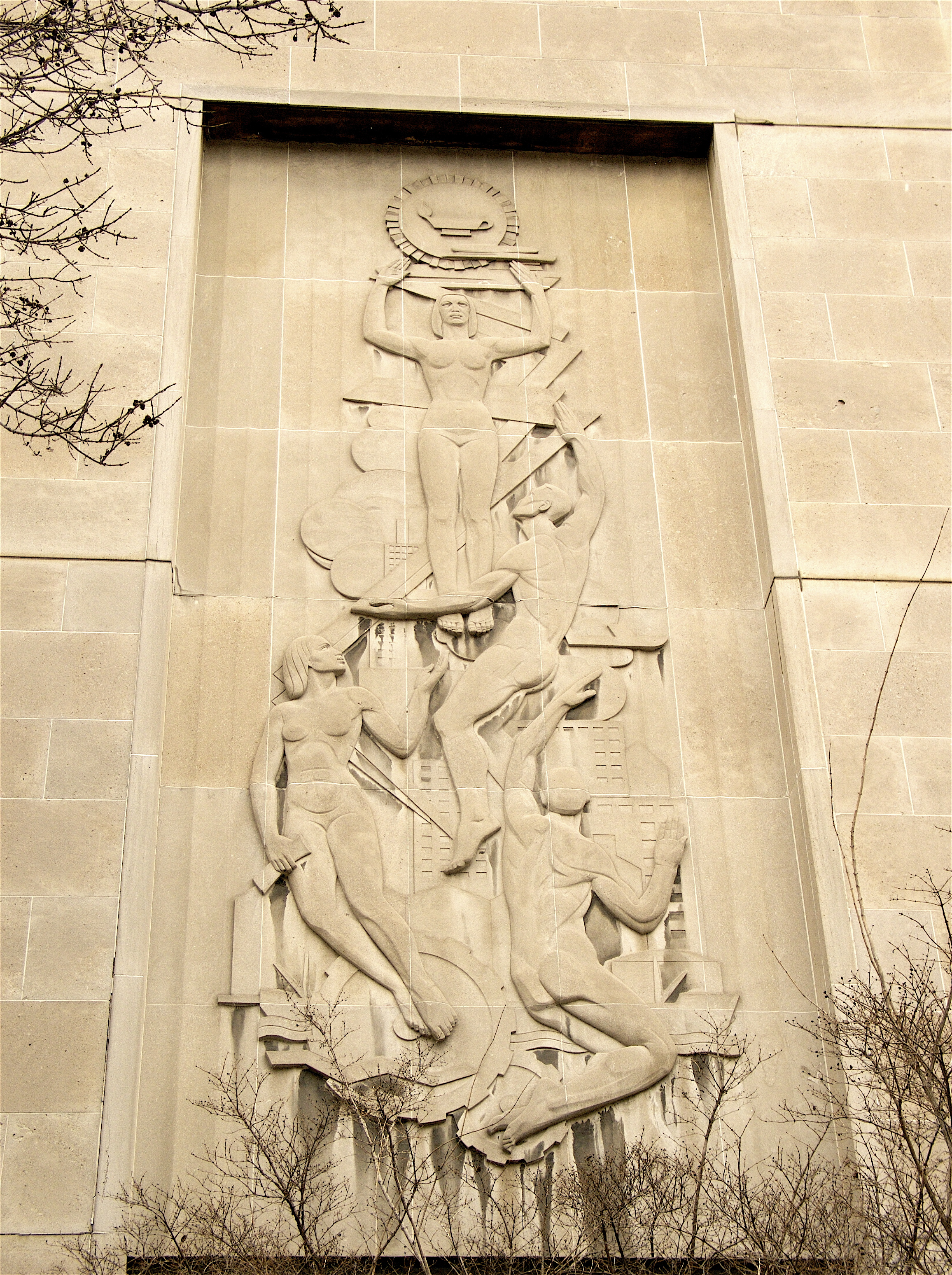 Probably by Elizabeth Wyn Wood. (Toronto, Canada)